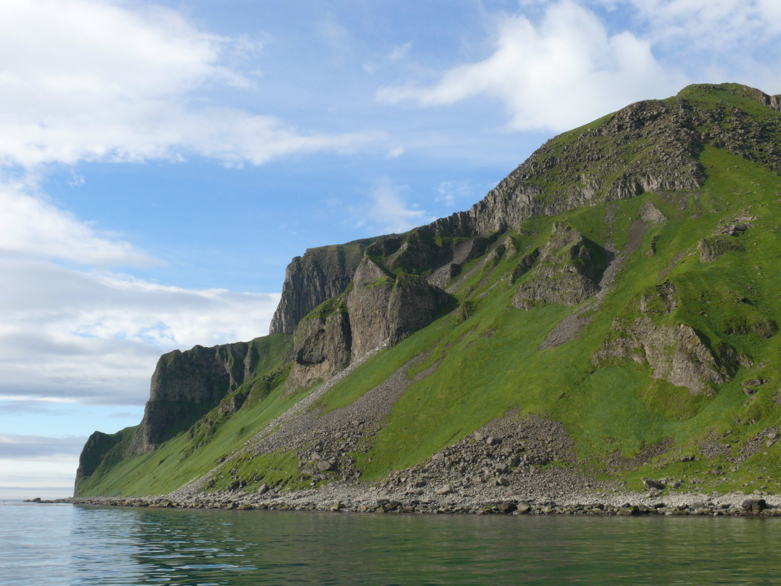 Cape Aiak, south coast of Unalaska Island, Alaska, July 2008